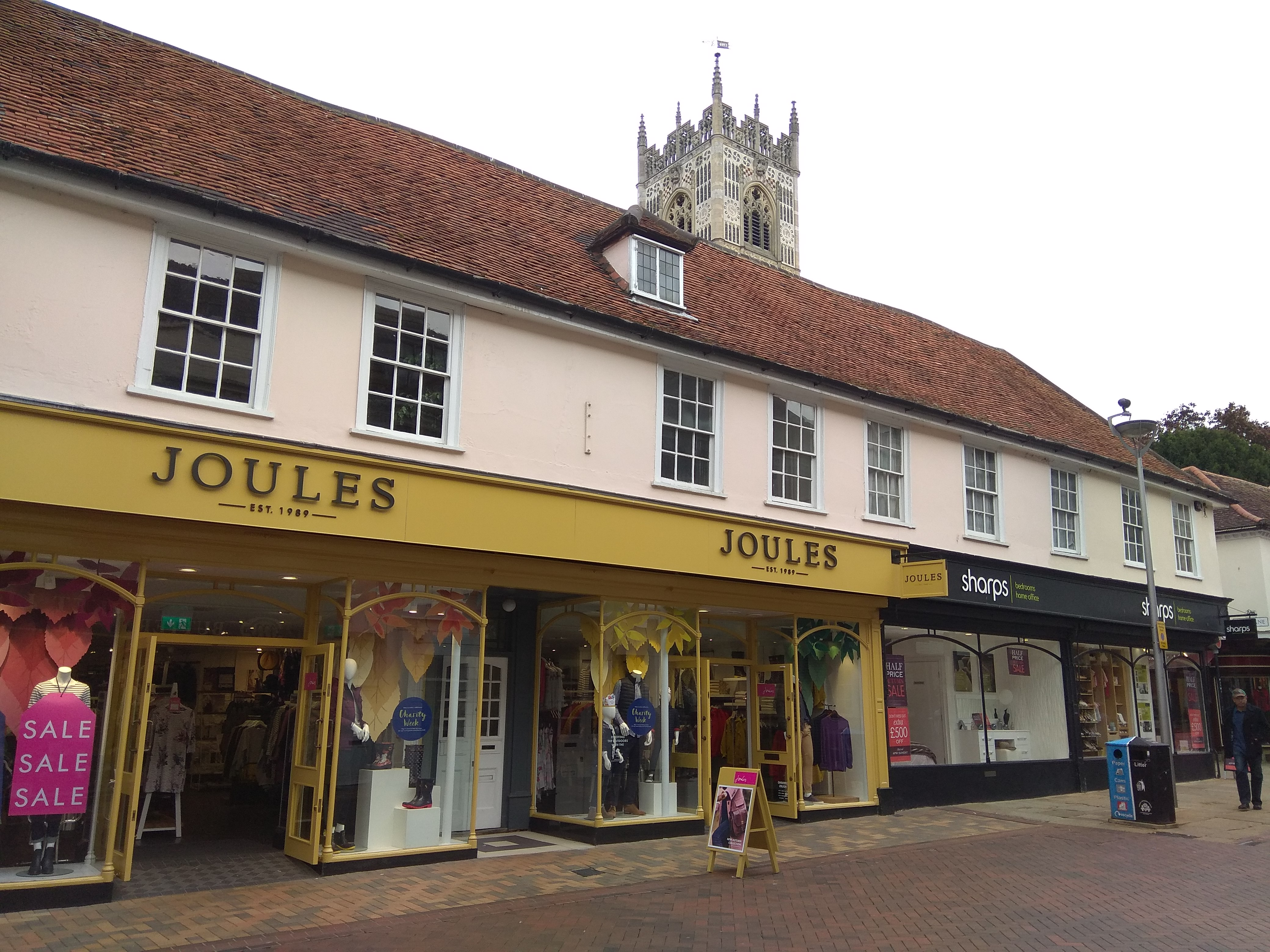 21, 23 And 23A, Buttermarket Wikidata has entry Q26289469 with data related to this item.